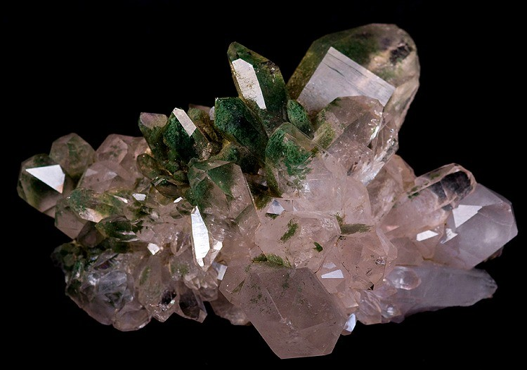 Quartz, Chlorite Locality: Lex Blanche Glacier, Veny Valley, Monte Bianco Massif, Courmayeur, Aosta Valley, Italy (Locality at ) Size: 14.0 x 9.5 x 7.0 cm. An impressive cabinet Italian quartz specimen from the Dr. Ed David Collection. An aesthetic and striking cluster of water-clear, very glassy quartz crystals are preferentially included with green chlorite. The large, dominating crystal is 5.5 cm. This is a superb and uncommon specimen from this Italian alpine locale - the Lex Blanche Glacier in the Veny Valley.